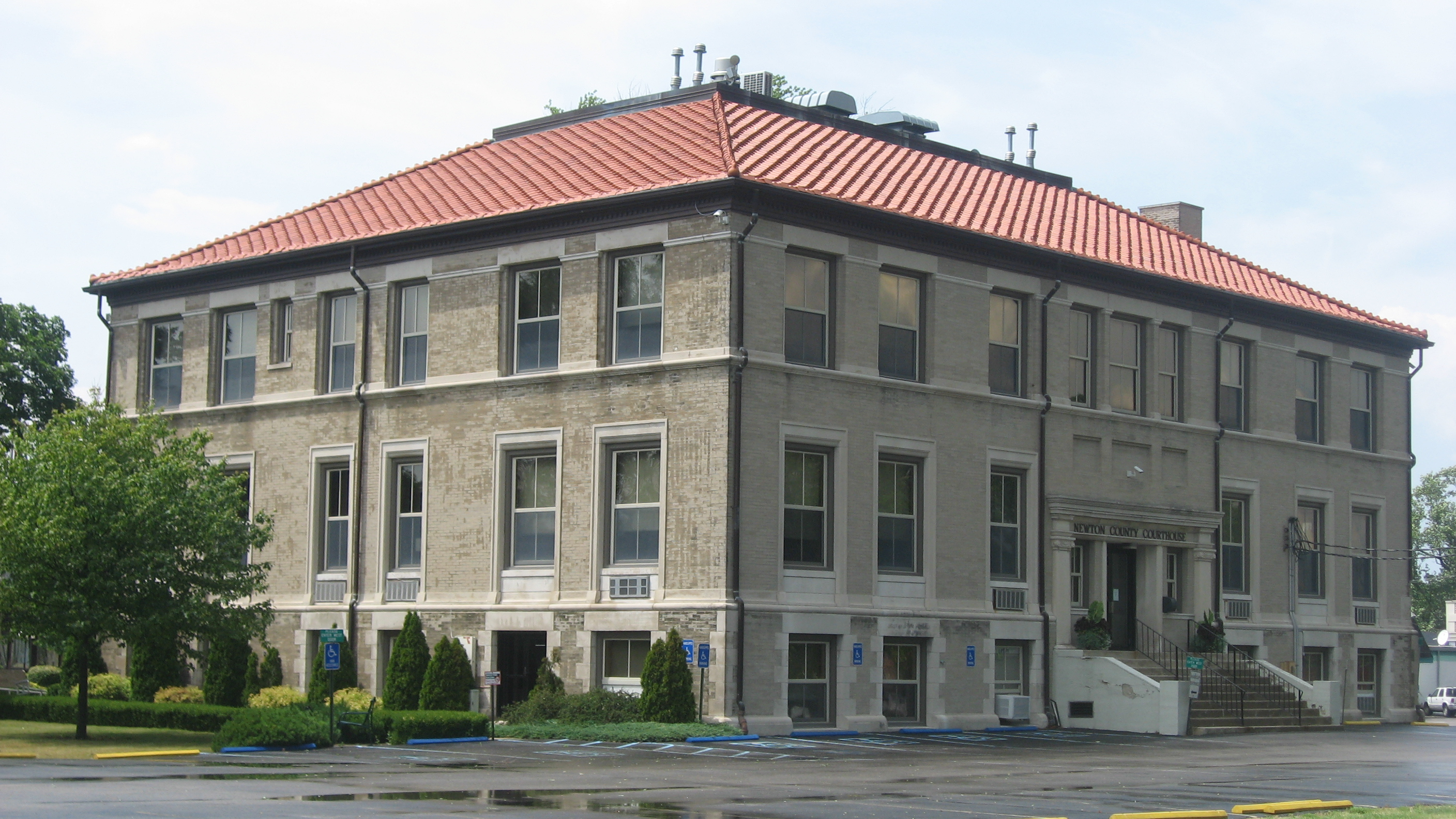 Eastern front and southern end of the Newton County Courthouse, located on Courthouse Square in Kentland, Indiana, United States. Built in 1906, it is listed on the National Register of Historic Places, and it is part of the locally designated Kentland Downtown Courthouse Historic District.